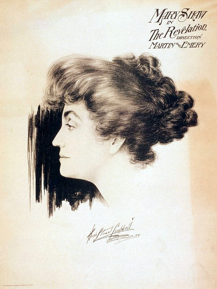 American playwright, actress, and suffragist Mary Shaw (1854–1929) in "The Revelation" directed by Martin and Emery. Lithograph poster.